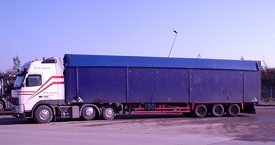 Volvo truck (tractor) with STAS walking-floor semitrailer, this one carrying wood chippings for recycling. Note: 2nd axle is steering, when lowered. On the picture it is lifted from the ground, since the load is not so heavy that 6 axels are required. Note 2: Date on camera not set. Actually the picture is taken in october 2005.